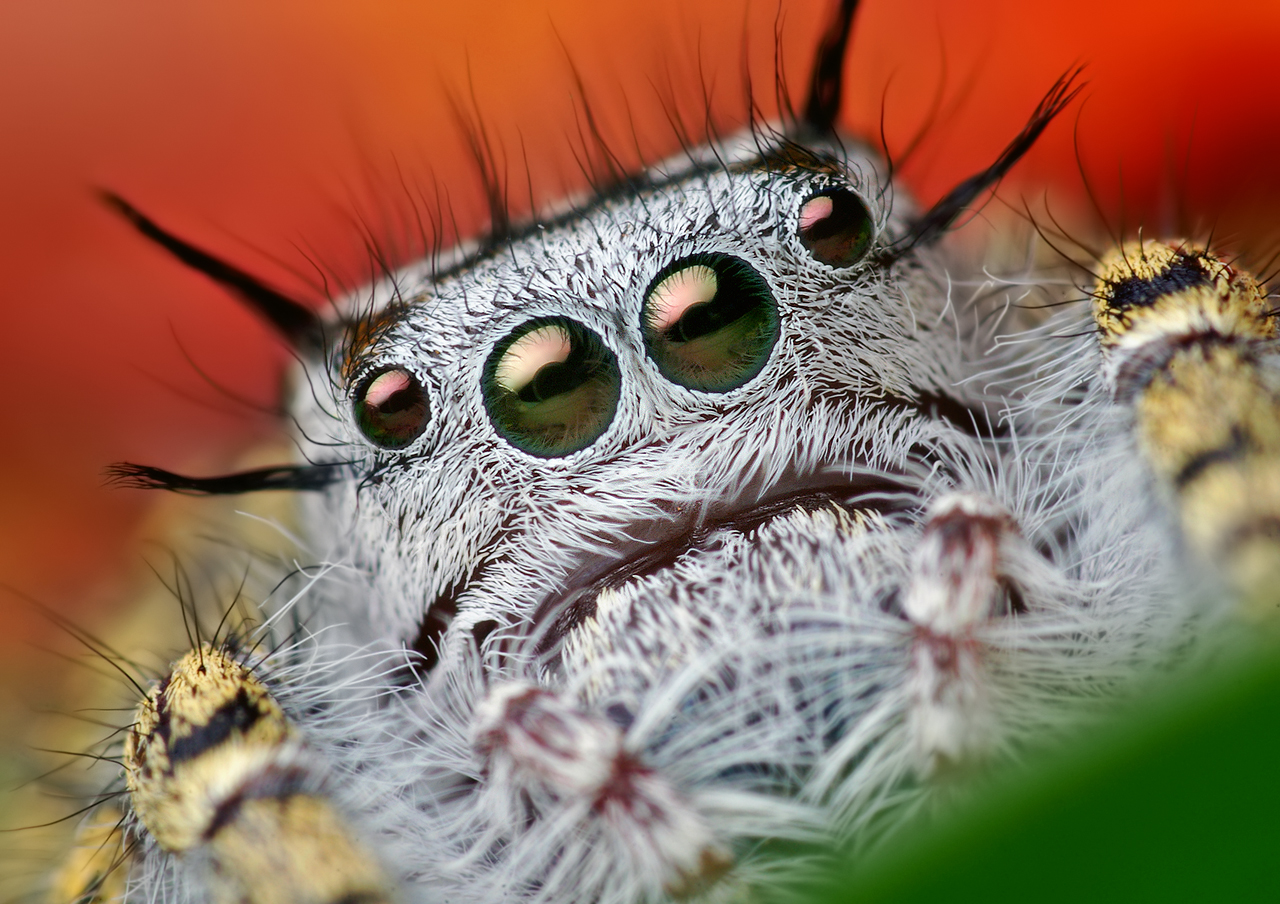 A close up of the face of an adult female Phidippus mystaceus jumping spider.